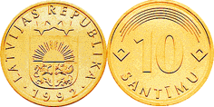 10 Santimu Latvia Obverse: The small coat of arms of the Republic of Latvia, encircled by the inscription LATVIJAS REPUBLIKA • 1992 (Republic of Latvia 1992), is placed in the centre. Reverse: The numeral 10 is centered on the coin. The inscription SANTIMU, arranged in a semicircle, is beneath the numeral 10. Above the numeral, five arcs join two diamond-shaped suns which are located on either side of the numeral 10. Edge: plain.